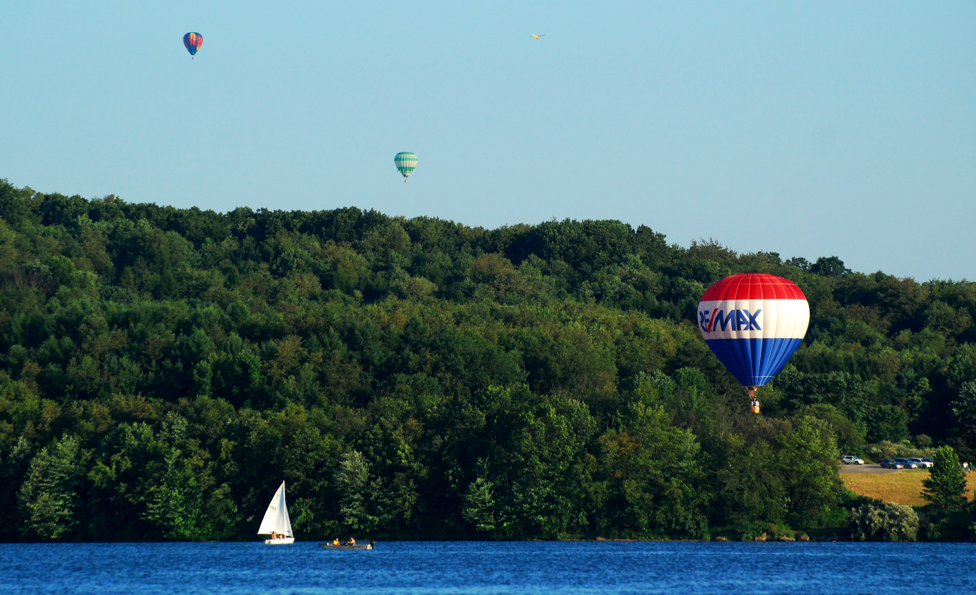 Regatta and Hot Air Balloon Festival at Moraine State Park